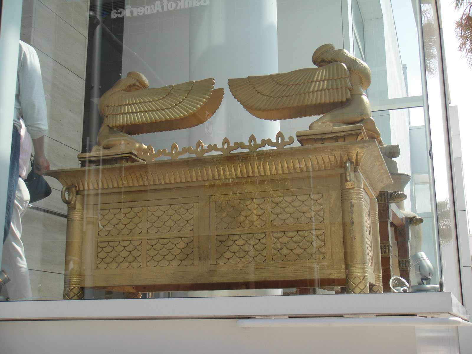 "David and Bathseba" full-scale gilt-lacquered Ark of the Covenant at the Debbie Reynolds Auction Breaks Up Historic Hollywood Collection (The Paley Center for Media in Beverly Hills, Los Angeles, CA, USA).